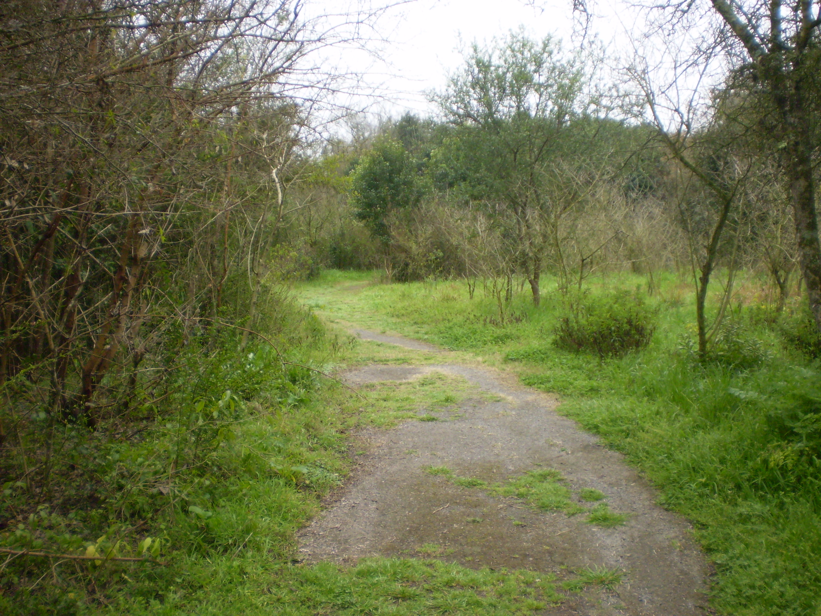 Otamendi wildlife natural reserve, Argentina.